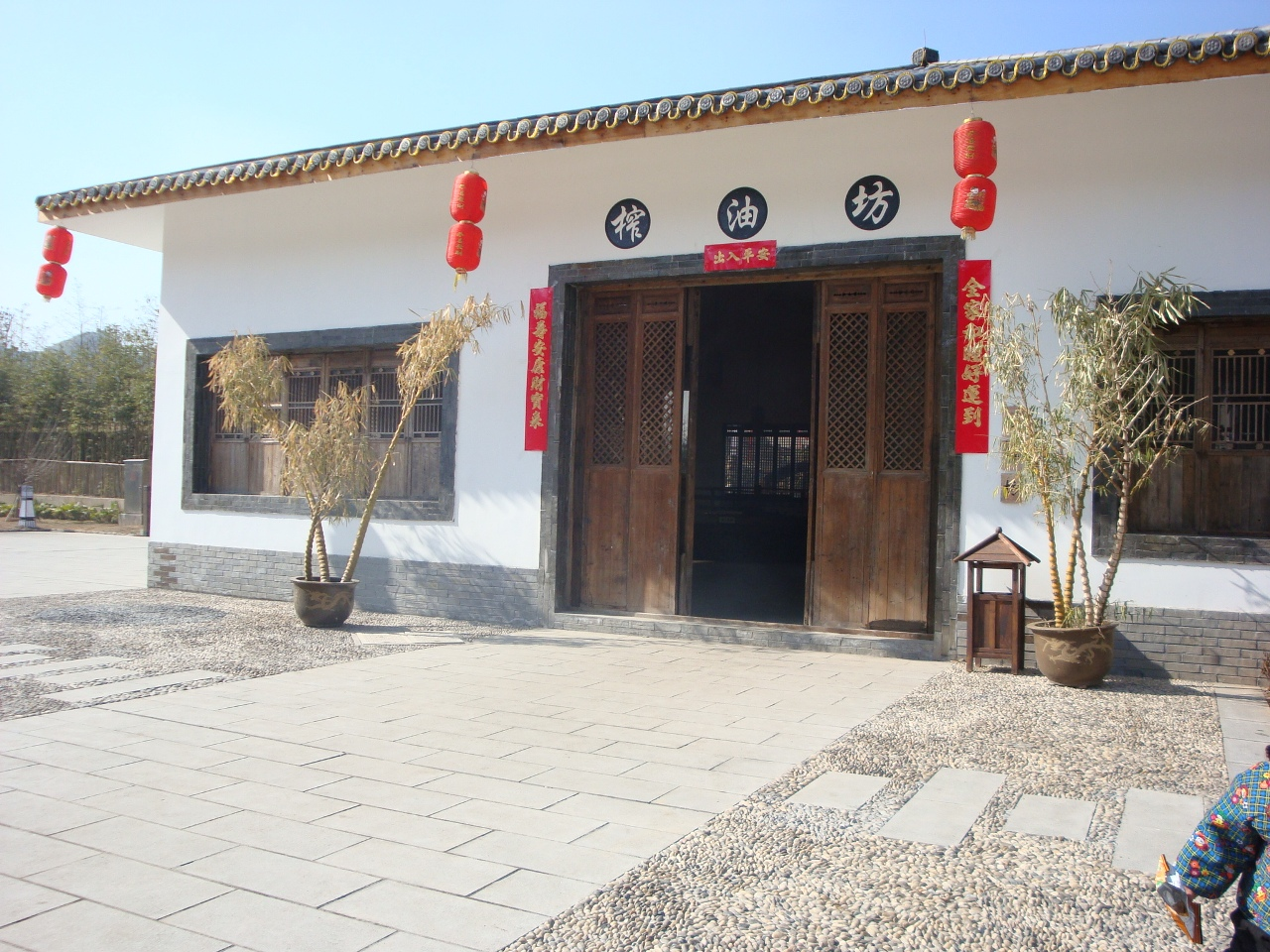 Tian gong kai wu yuan zha you fang